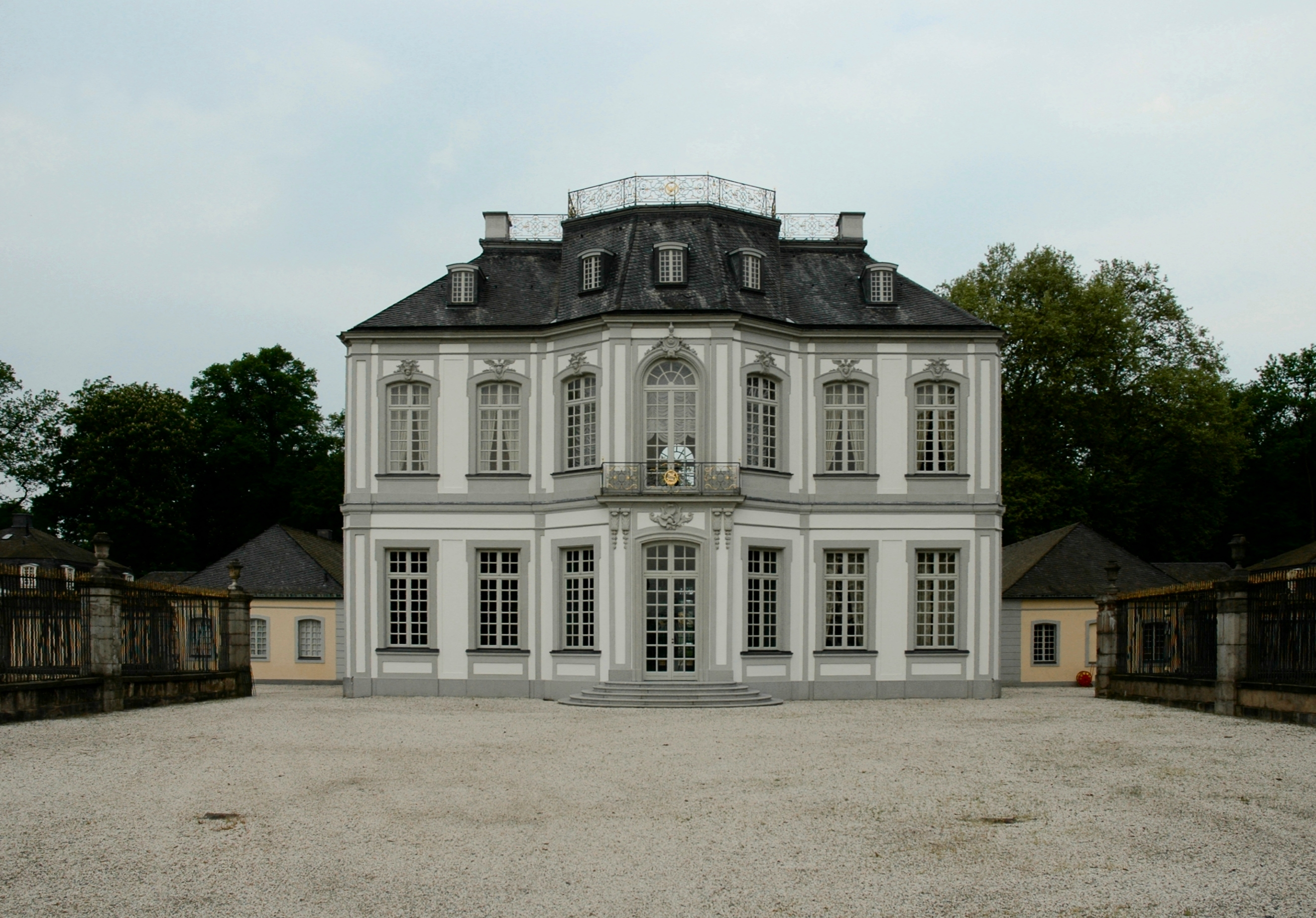 Falkenlust Palace in Brühl, eastern aspect